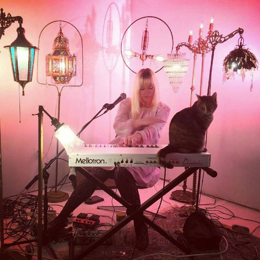 Janel Leppin playing the M4000D Digital Mellotron at the Wilderness Bureau in 2016.